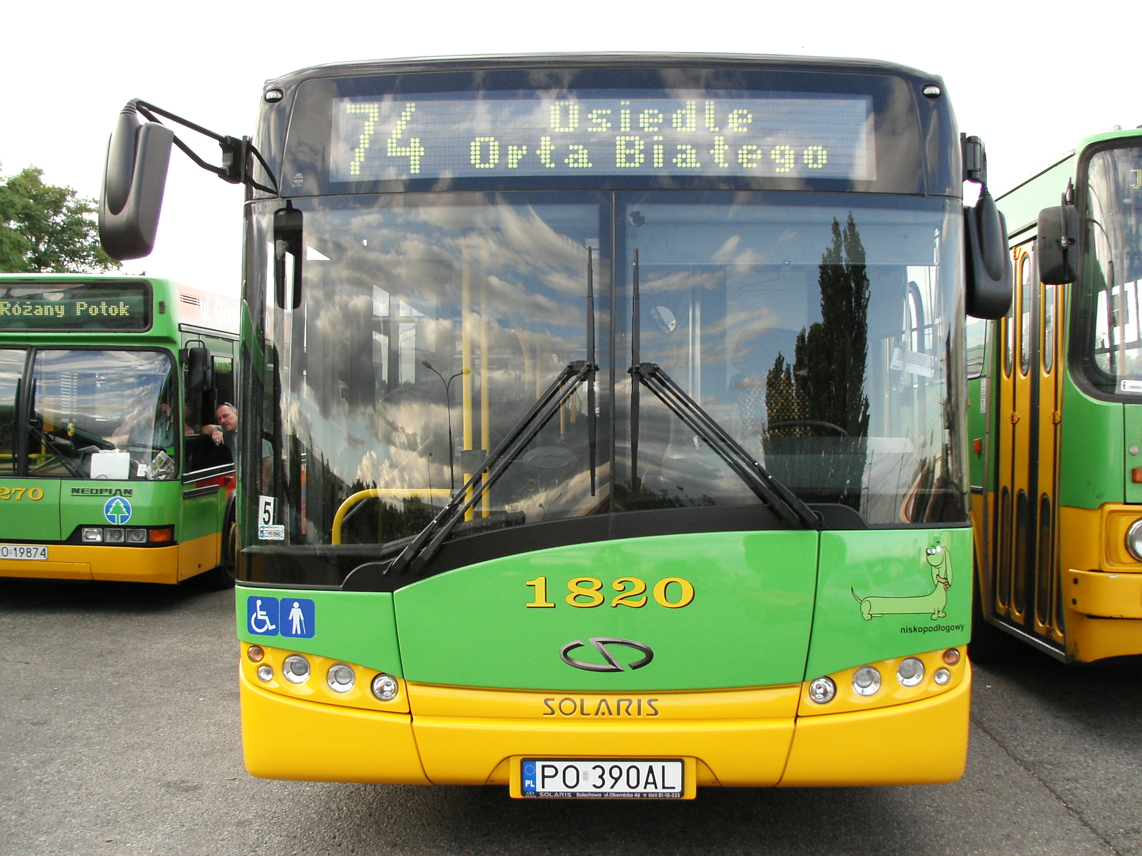 Solaris Urbino 18 Mk3 bus (#1820) in Poznań, Poland. Built 2006, MPK Poznań operator.